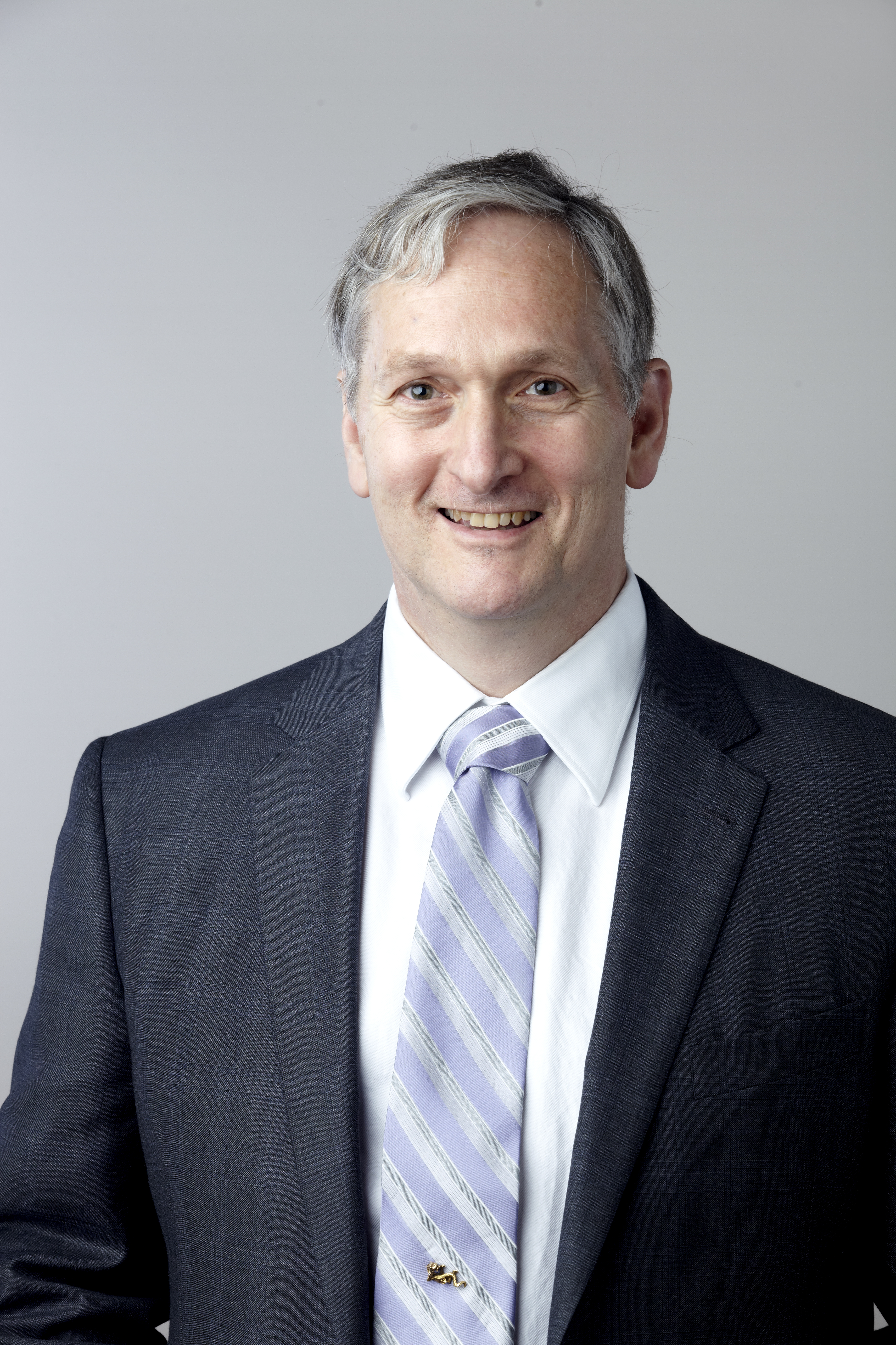 Professor Clifford Tabin ForMemRS, Royal Society Foreign Member elected 2014 Attribution: The Royal Society